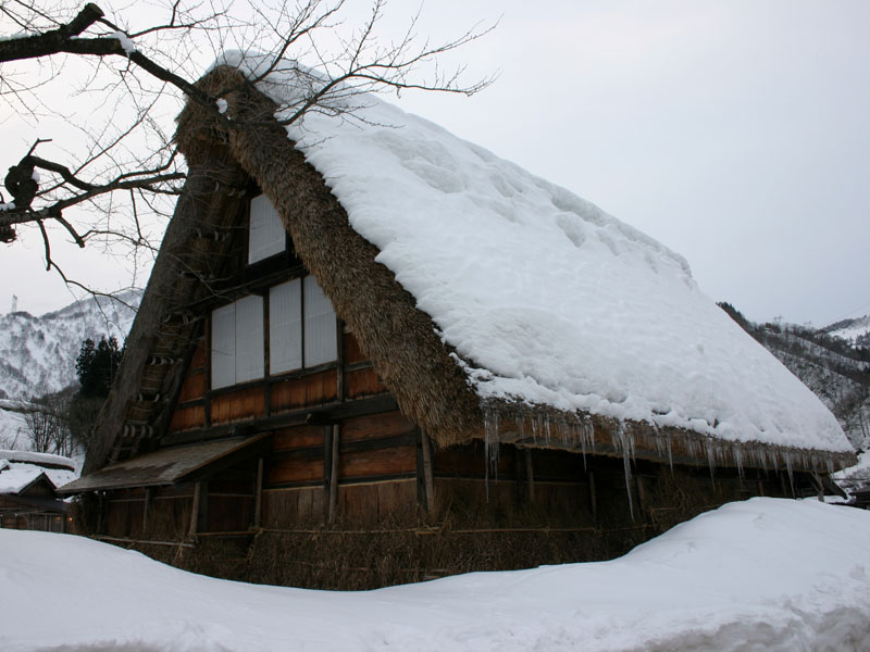 Gokayama Old Villeage in Japan. Gokayama include Japanese World Heritage site Historic Villages of Shirakawa-go and Gokayama.